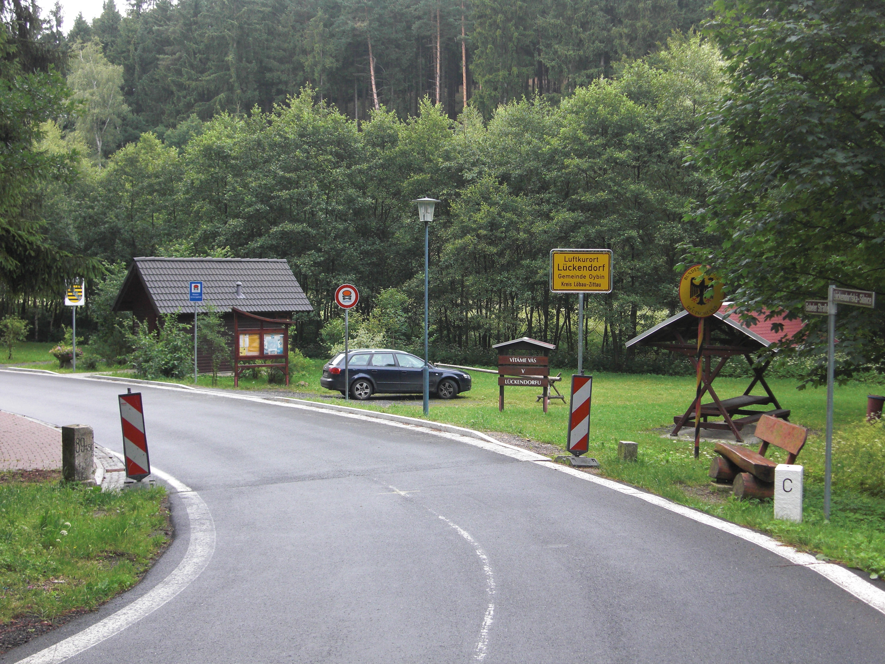 Border crossing